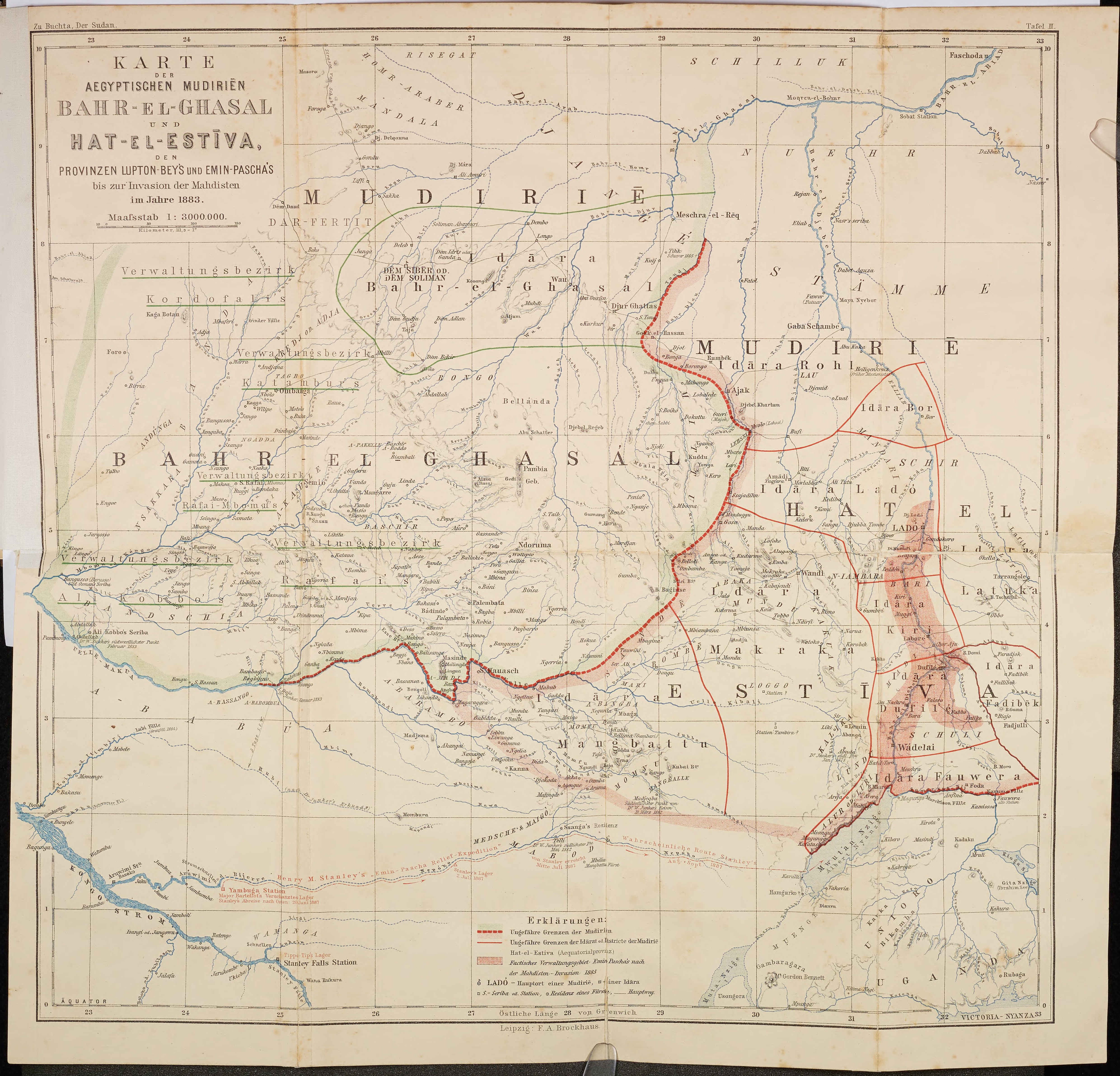 Map of the Egyptian Mudiriyat Bahr al-Ghazal and Equatoria, the provinces administrated by Lupton Bey and Emin Pasha up to Mahdis invasion in 1883, scale 1:3.000.000